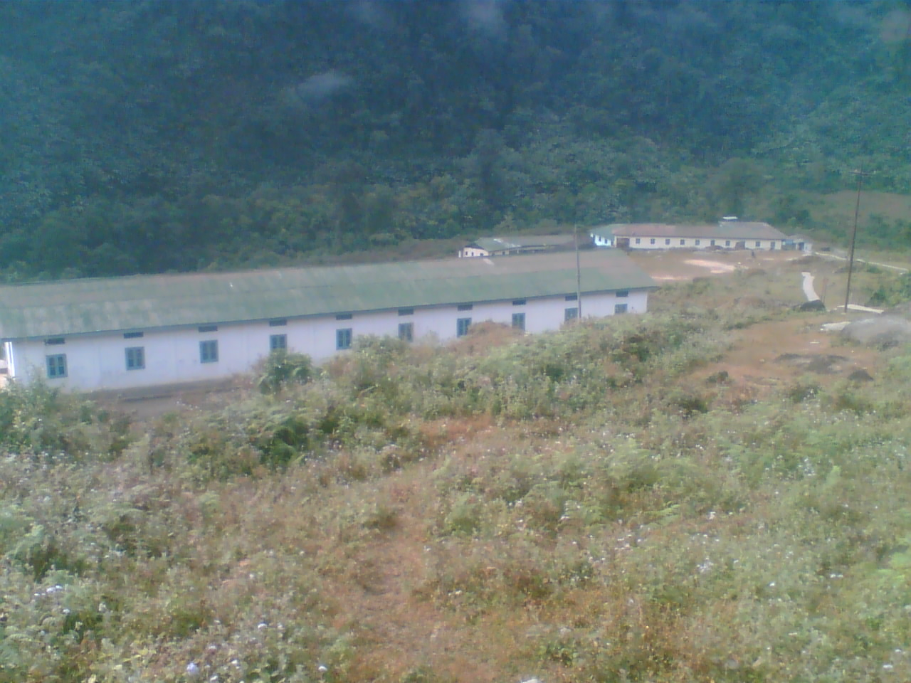 The Vivekananda Kendriya Vidyalaya(VKV school) in Pasighat. The VKV chain of schools is one of the important non-governmental educational establishment in Arunachal Pradesh.